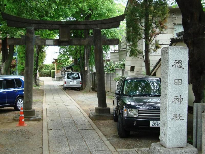 Gate of Onden Jinja, Shibuya, Tokyo